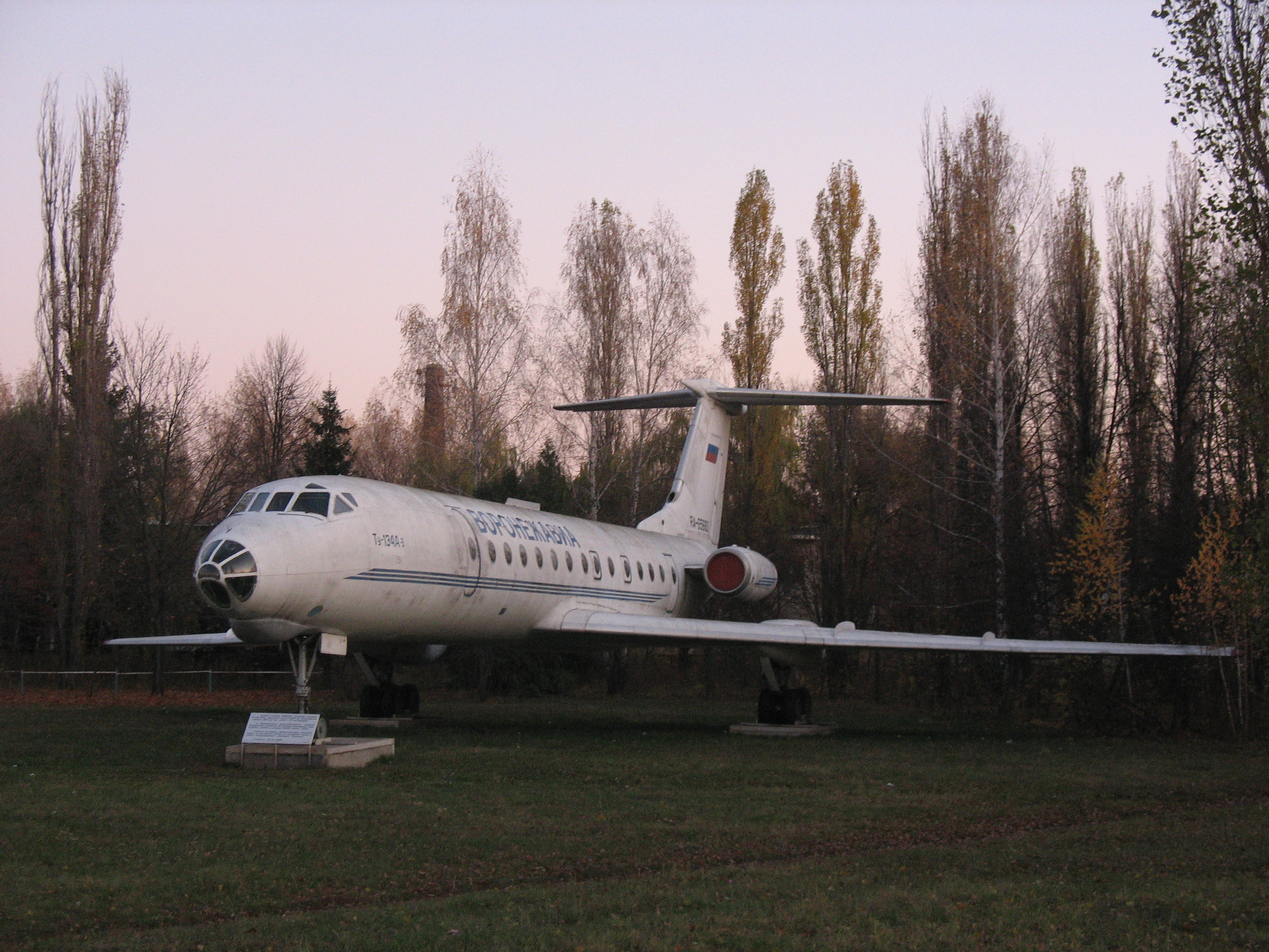 Tu-134A in airport of Voronezh